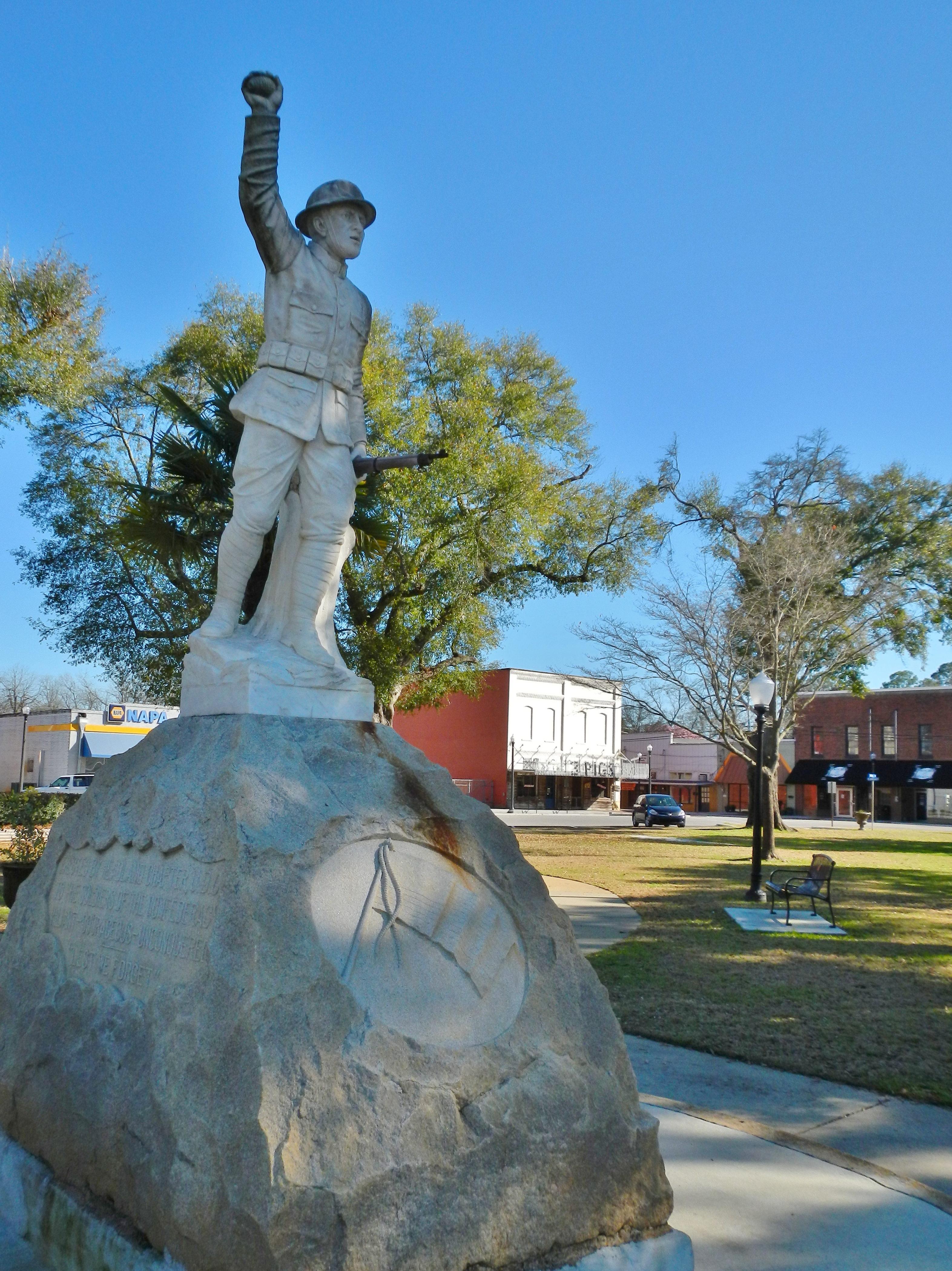 This is a photograph of a doughboy statue in Headland, Alabama